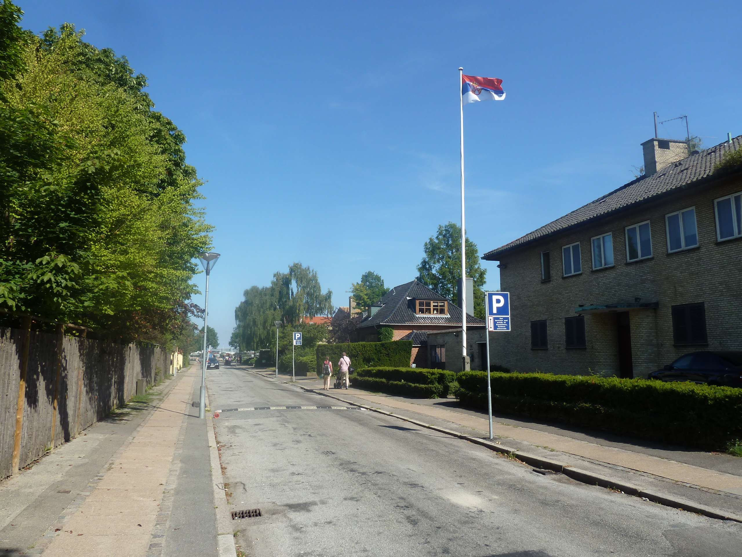 The street Svanevænget in Østerbro in Copenhagen. The Serbian Embassy at the right.